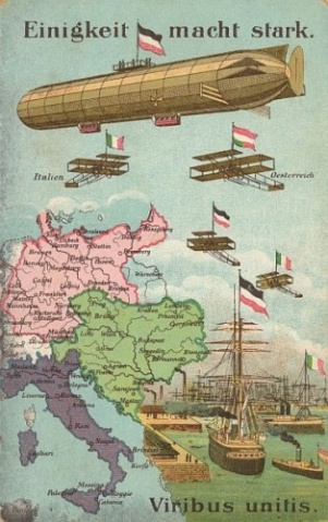 German postcard in favor of the Triple Alliance.